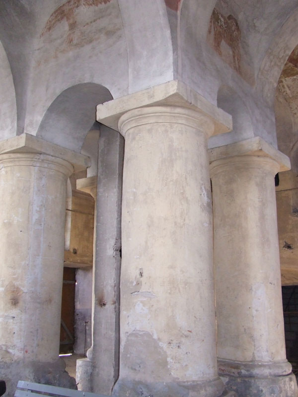 Synagogue in Bychawa